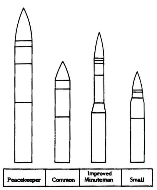 USAF ICBMs comparative.